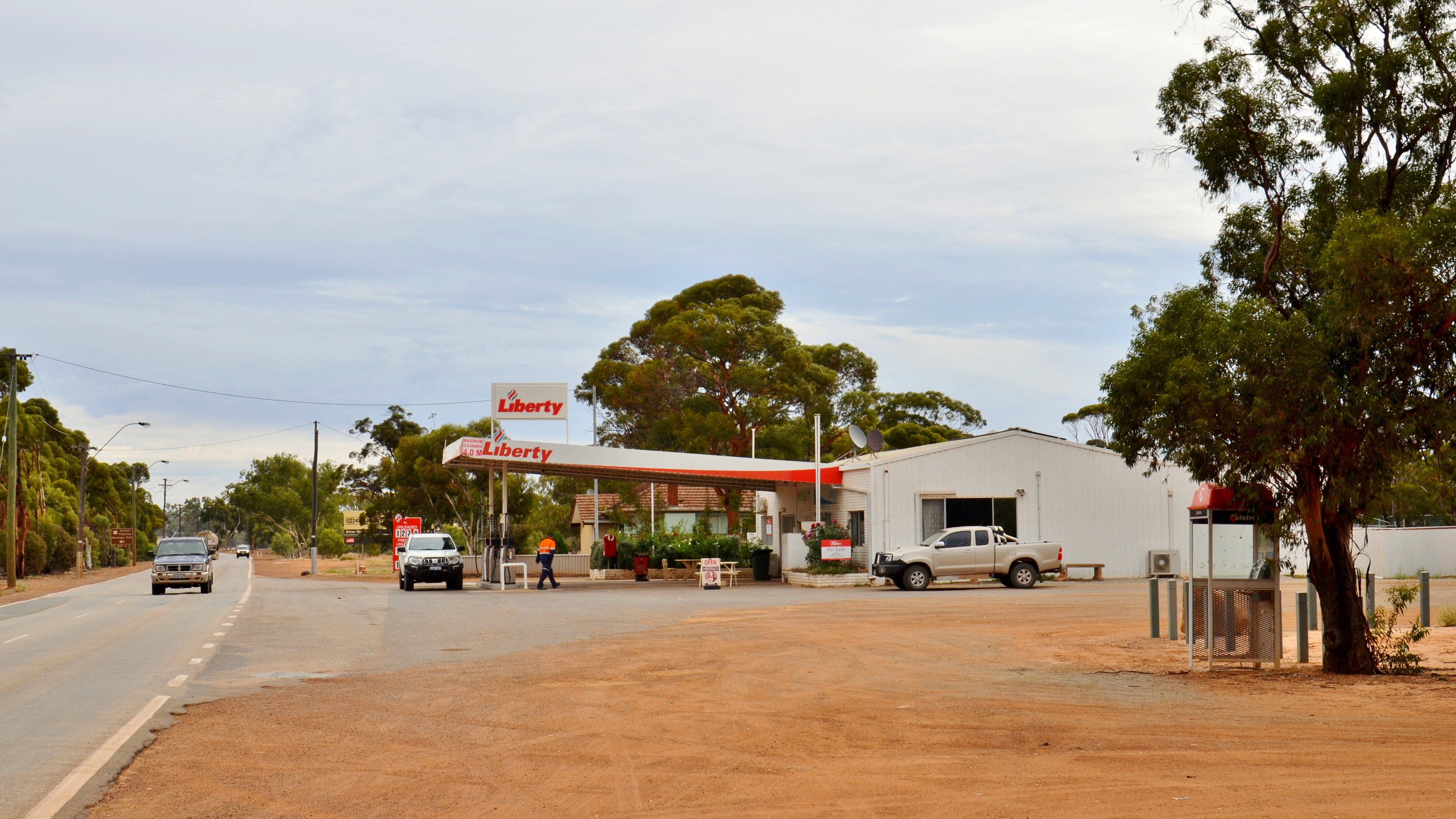 View of the Bodallin Roadhouse, Bodallin, Western Australia.